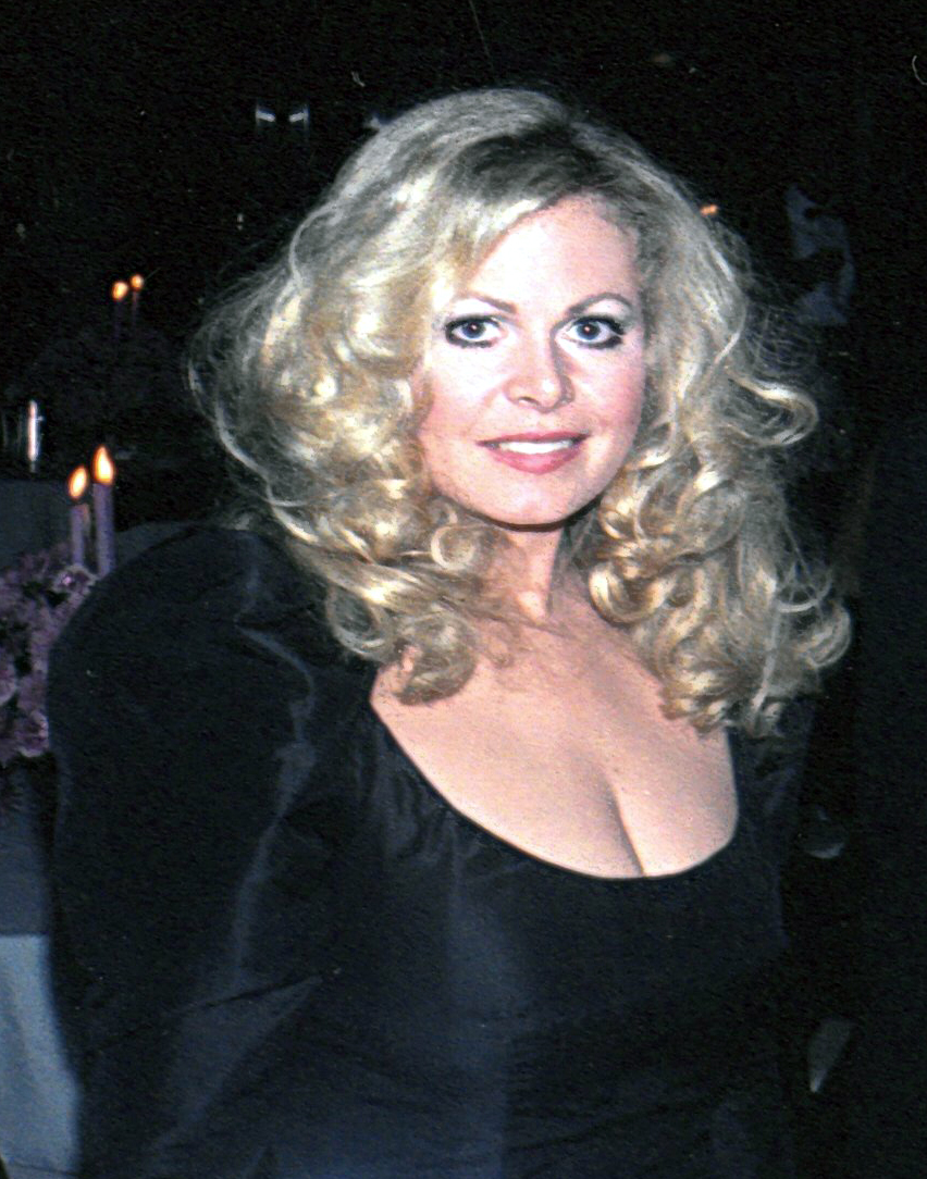 Sally Struthers at the Filmex Tribute to Elizabeth Taylor in November 1981. "Photo by Alan Light" requested by photographer for attribution